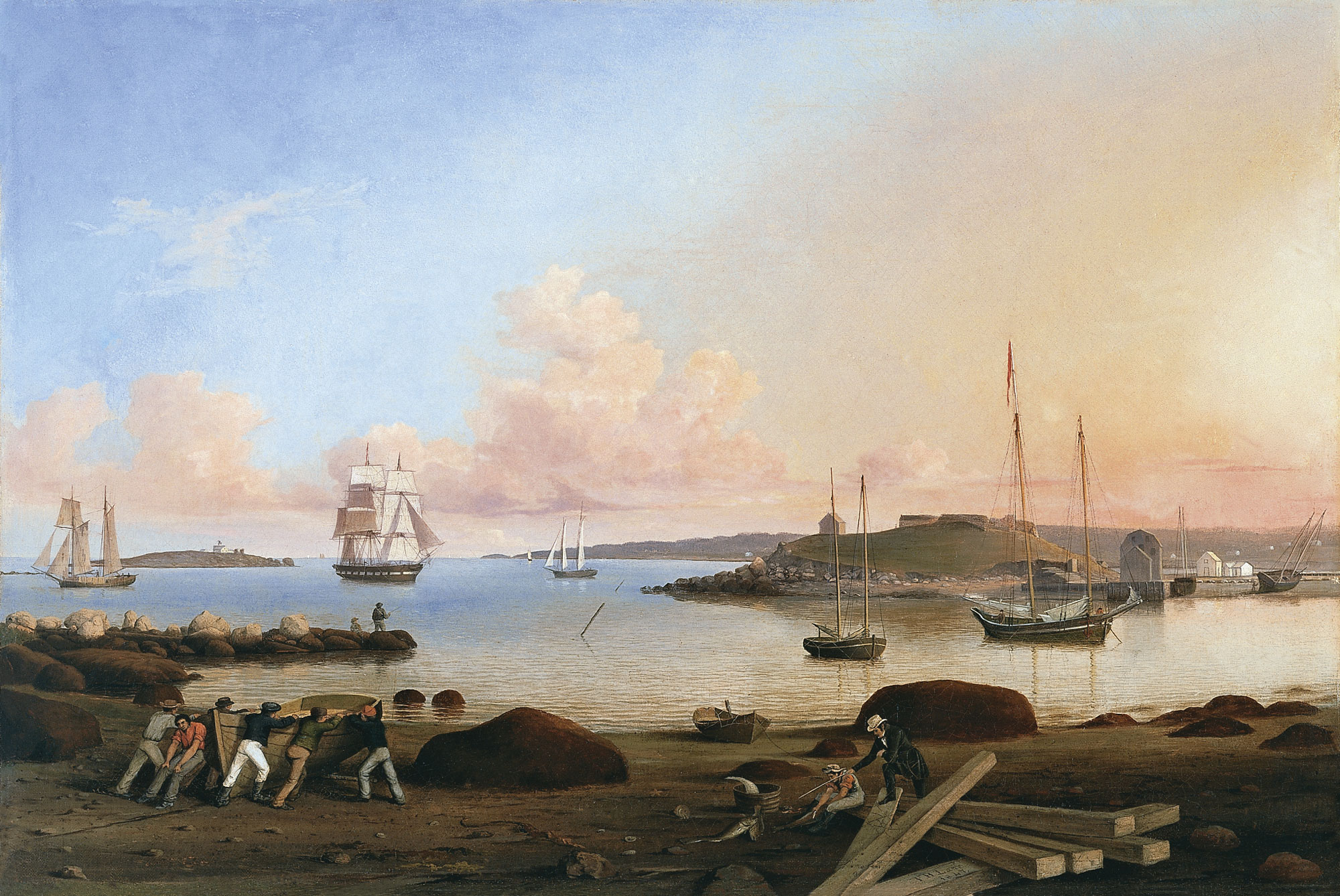 Painting of Gloucester Harbor, Massachusetts with several ships and a group of men handling a boat. Fort Defiance is shown in the background.